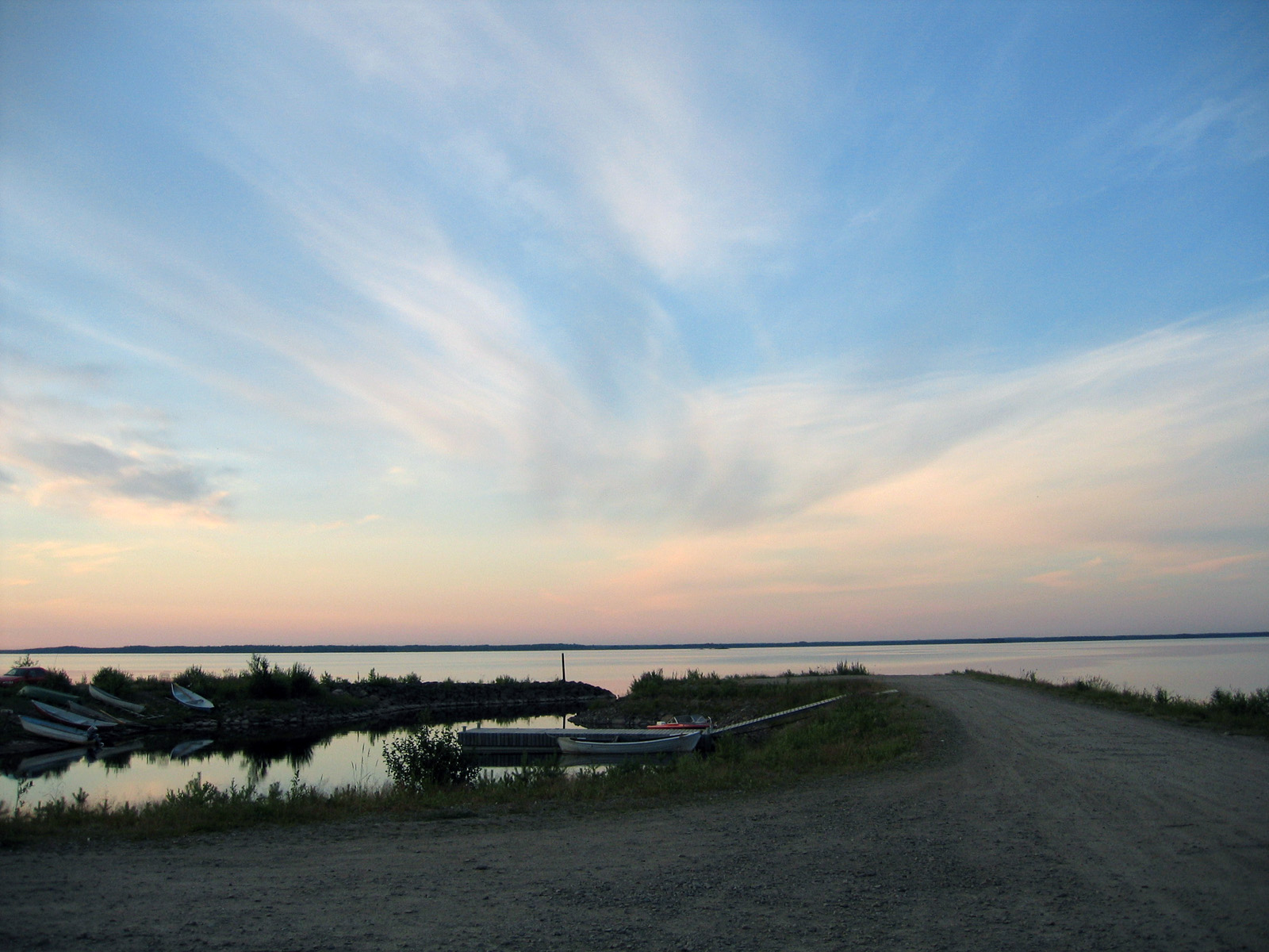 Uljua resevoir in Pulkkila, Finland